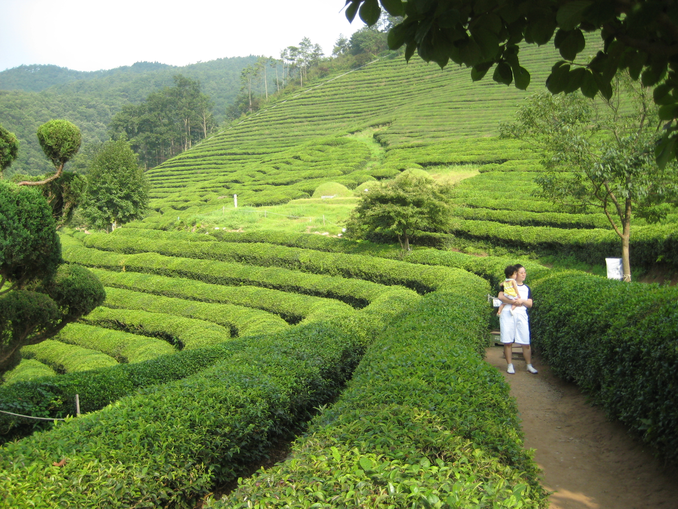 Green tea field in Boseong, Jeollanam-do South Korea